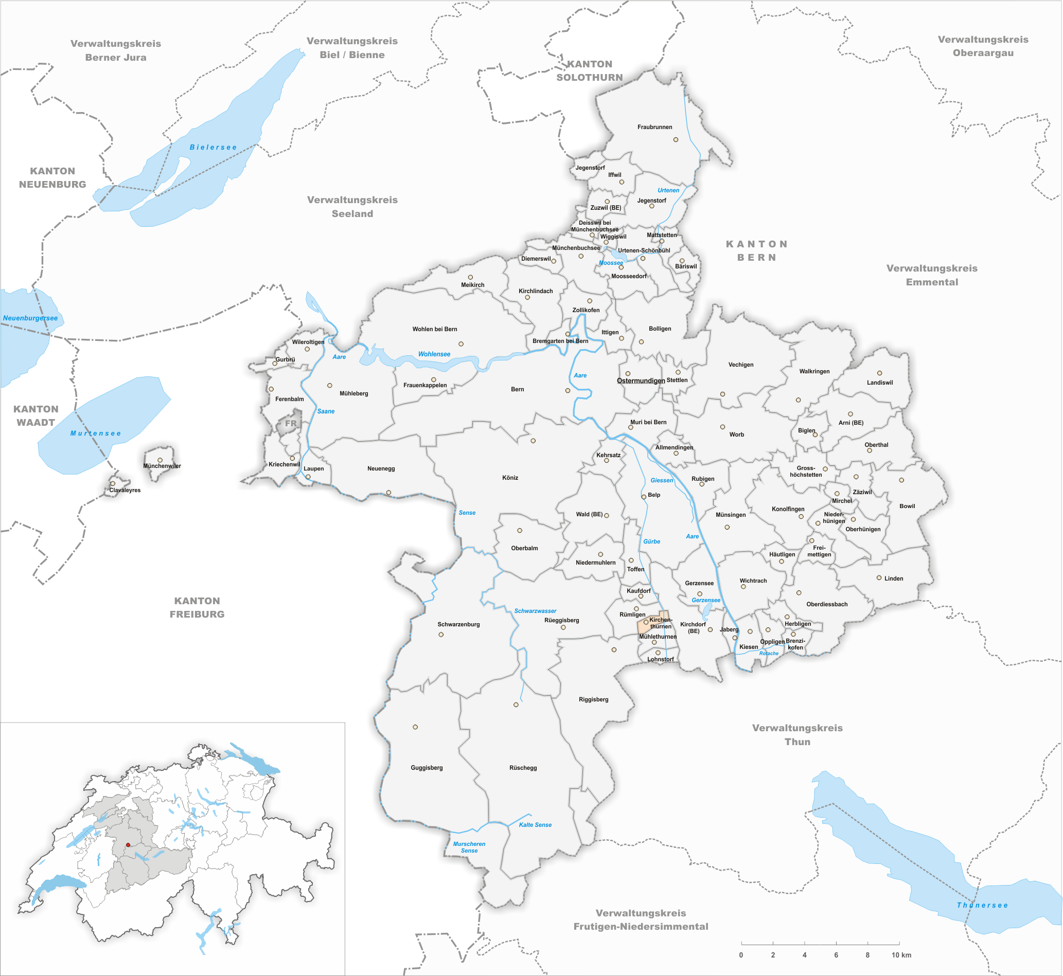 Municipality Kirchenthurnen